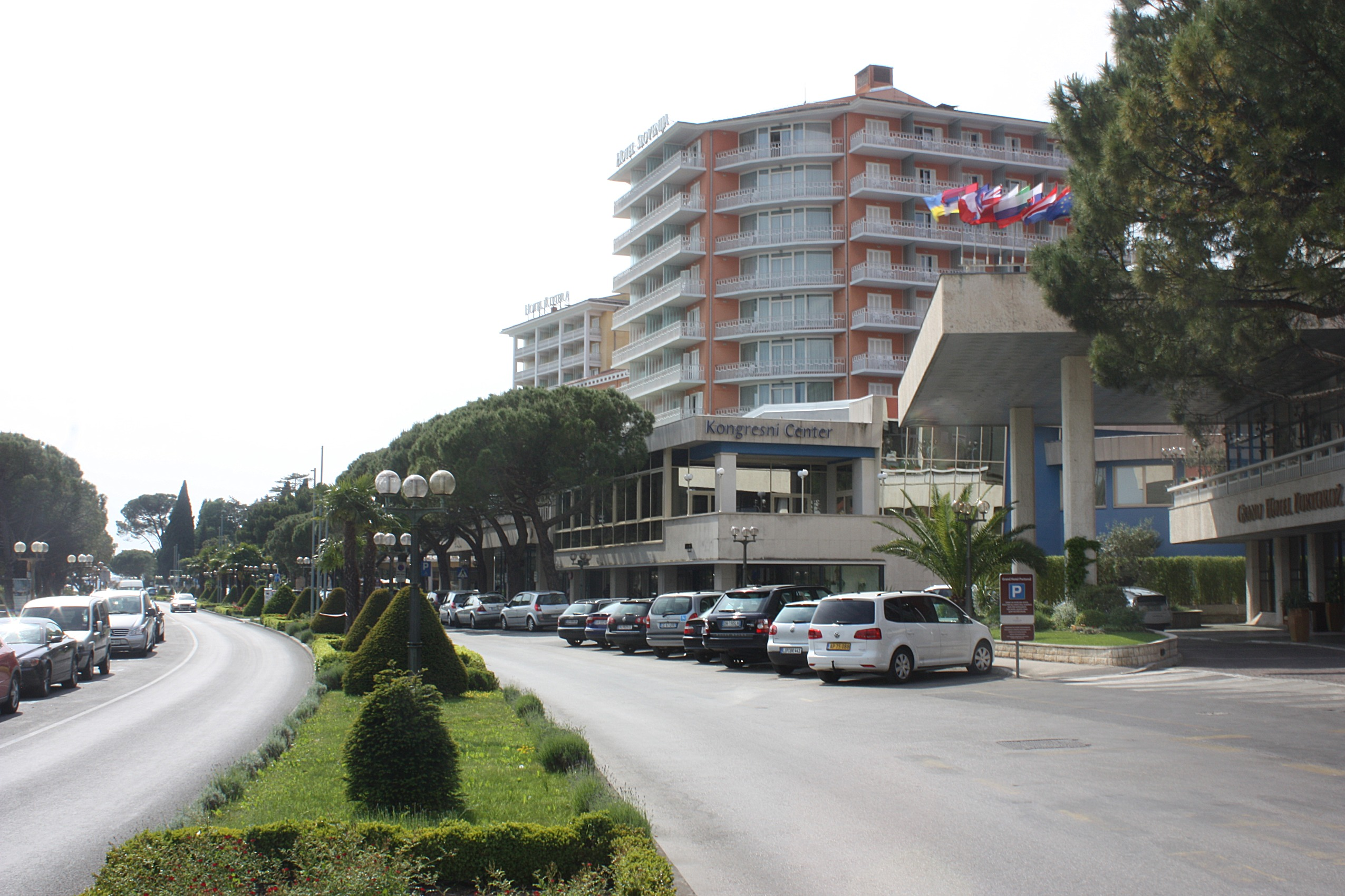 Portorož, the Congress Center